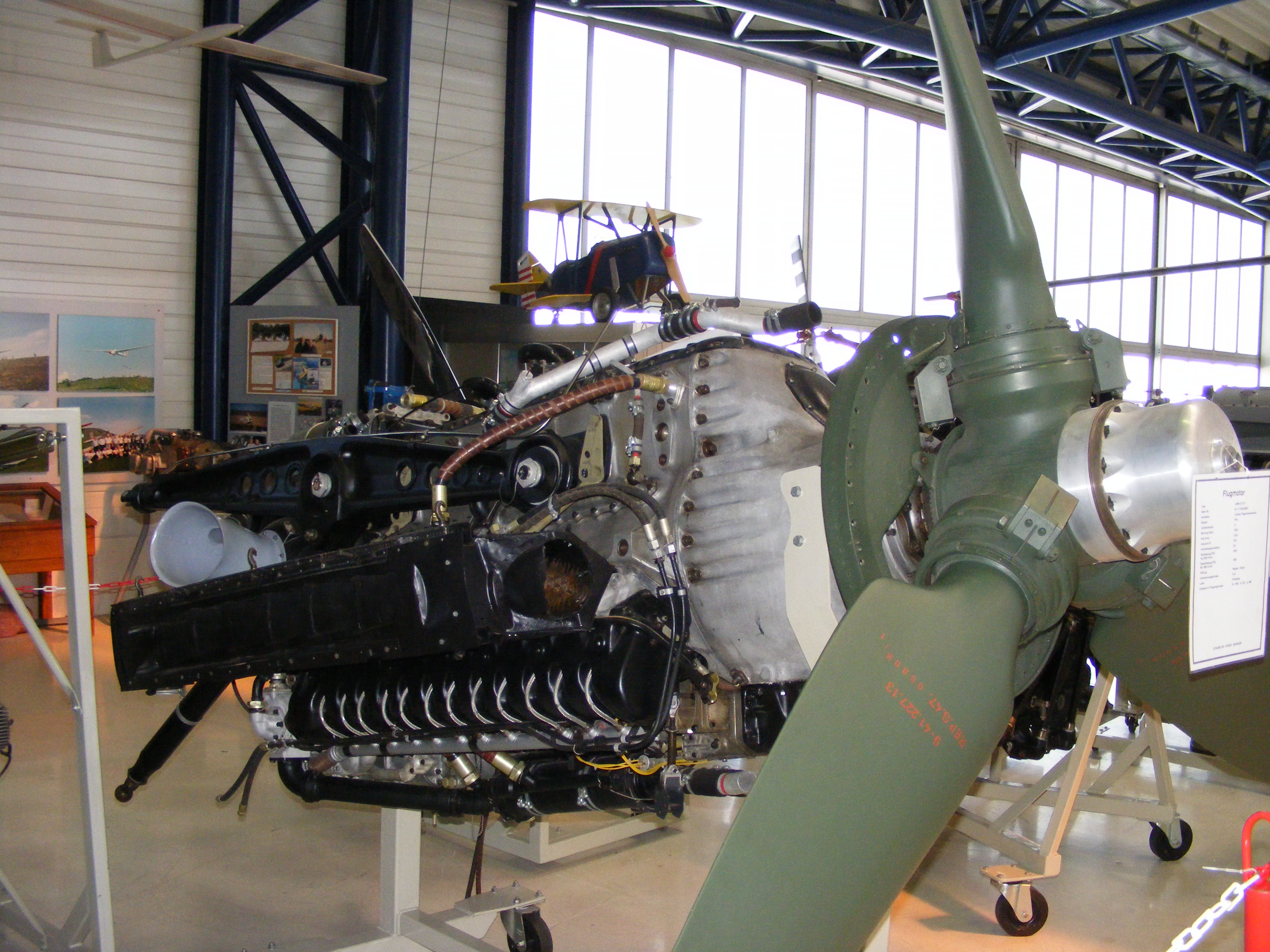 Junkers Jumo 213 E1 at aviaticum museum, Austria